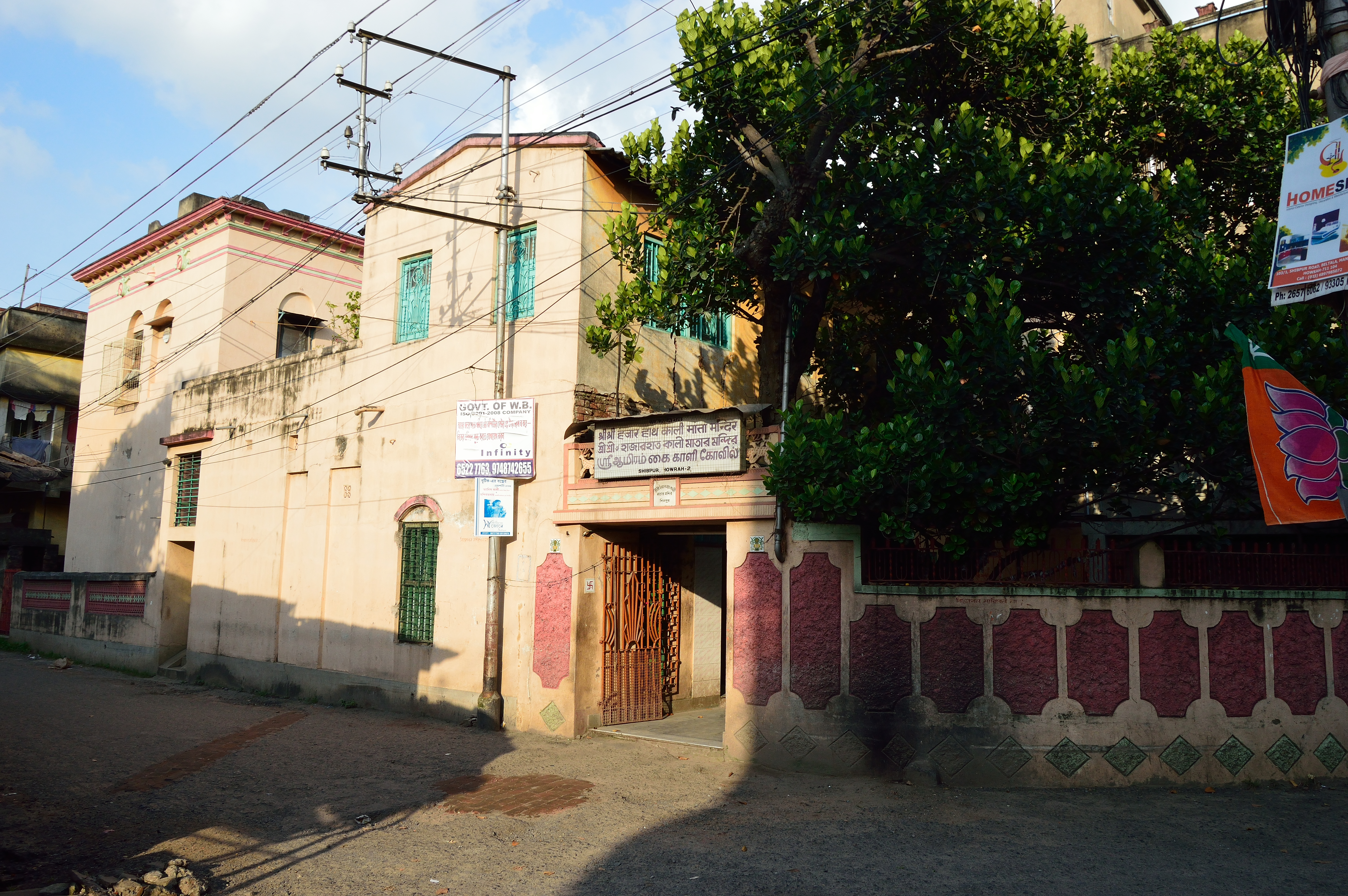 Photographed in Howrah, India.